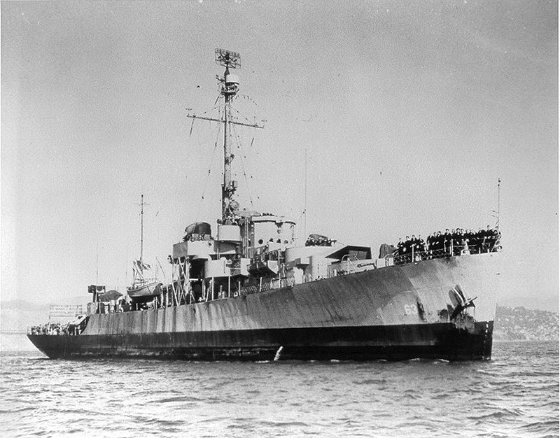 USS Moberly (PF-63) Off San Francisco, CA in early 1946. U.S. Navy photo NH 79077 from the Naval Historical Center